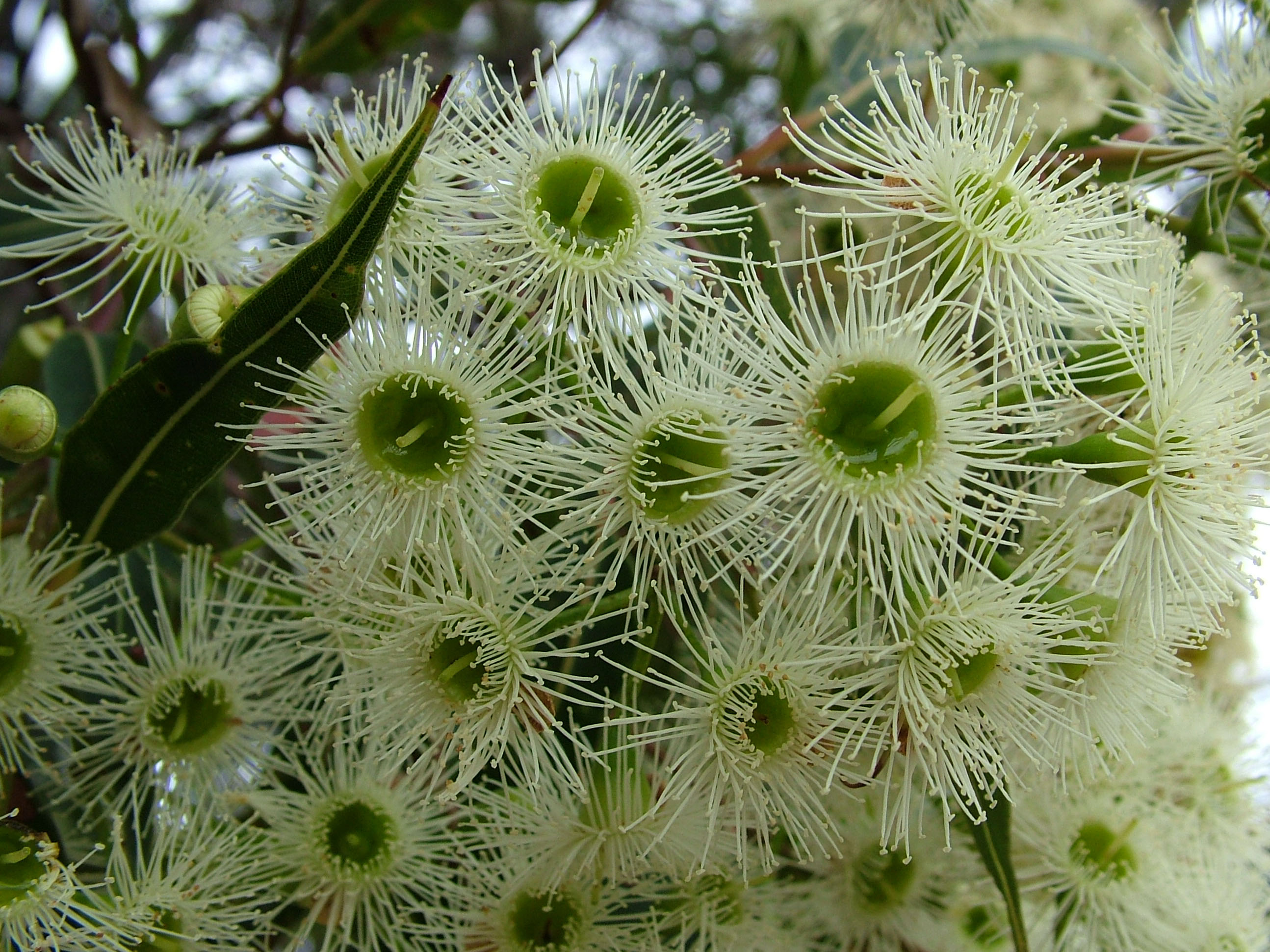 Corymbia gummifera (Red Bloodwood) flowers, Mallacoota, Victoria, Australia, Feb 2007